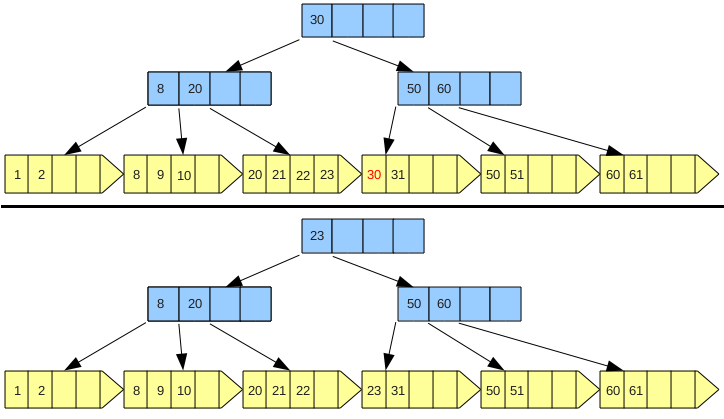 Remotion from B+ tree